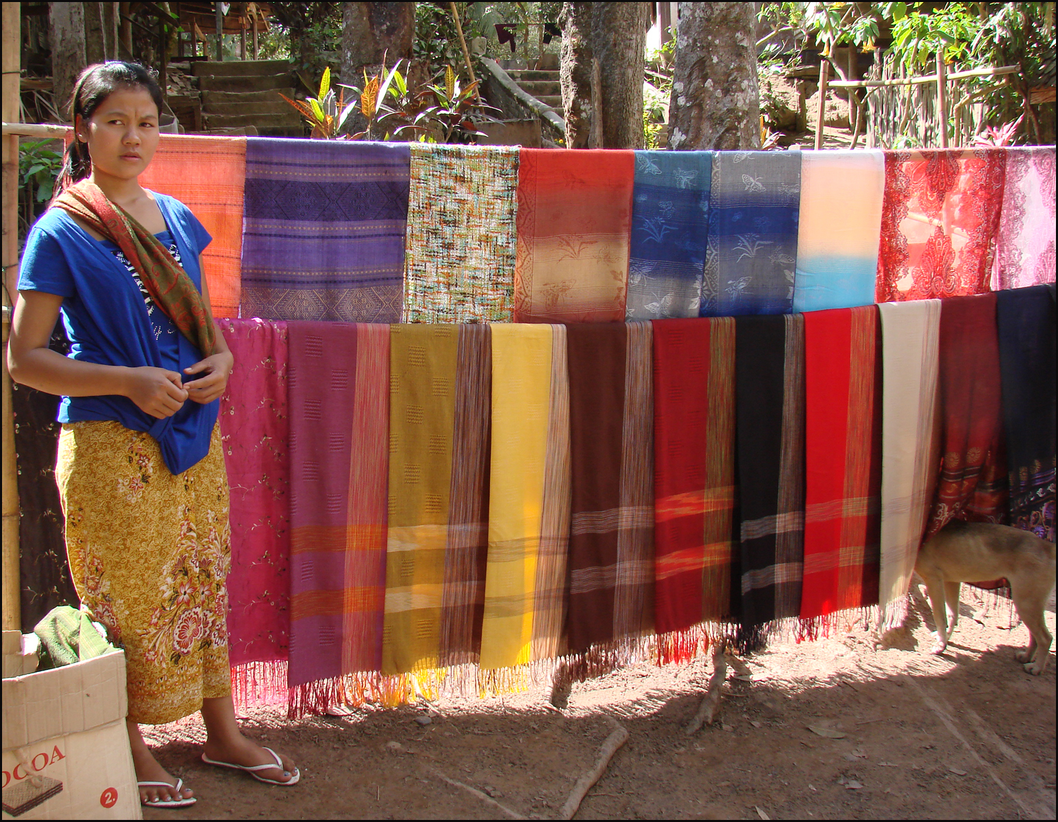 A Laos cloth weaver near Pak Ou, a village known for its artisans